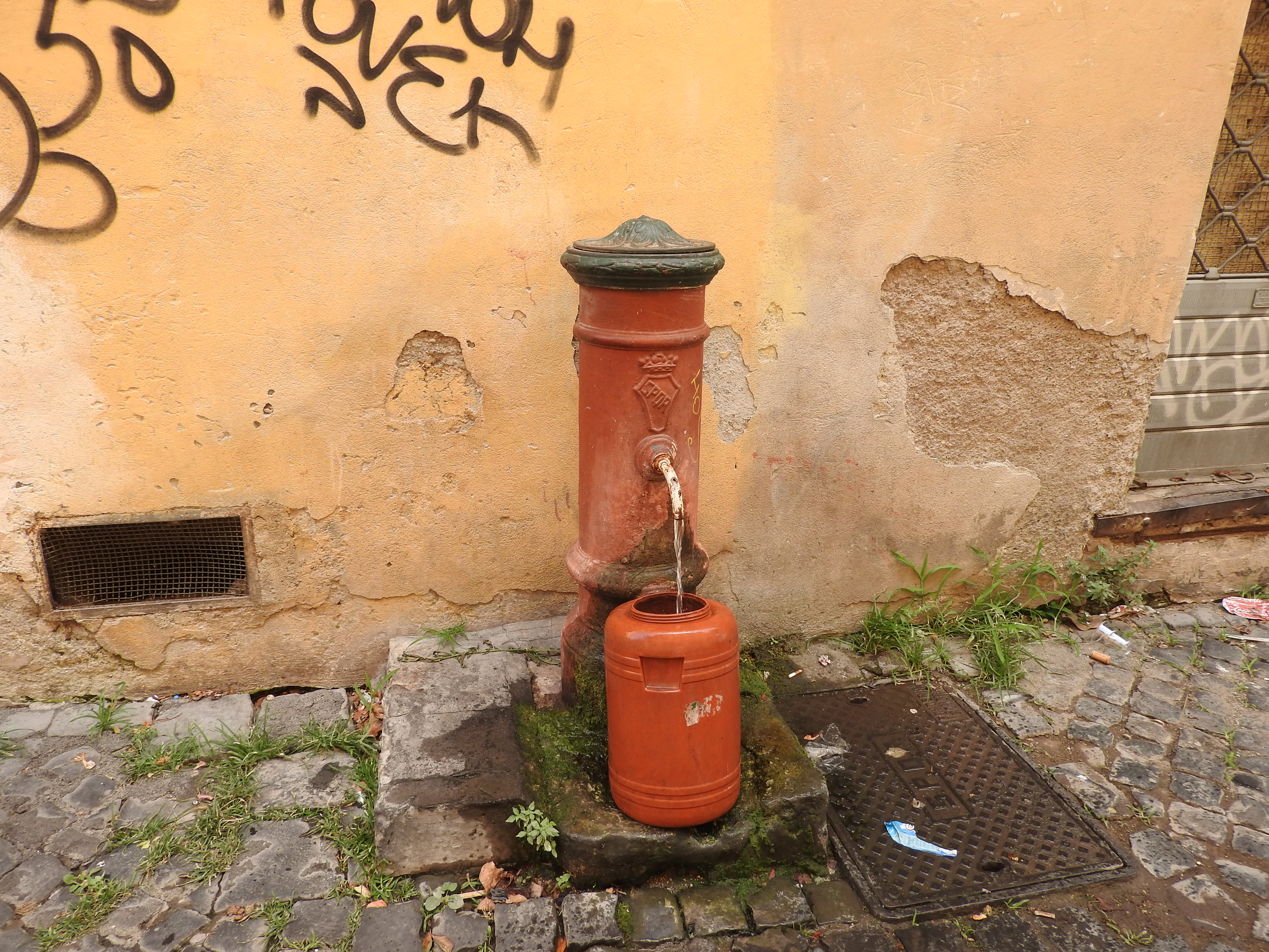 Public water source ("Nasone") in Trastevere, Rome.